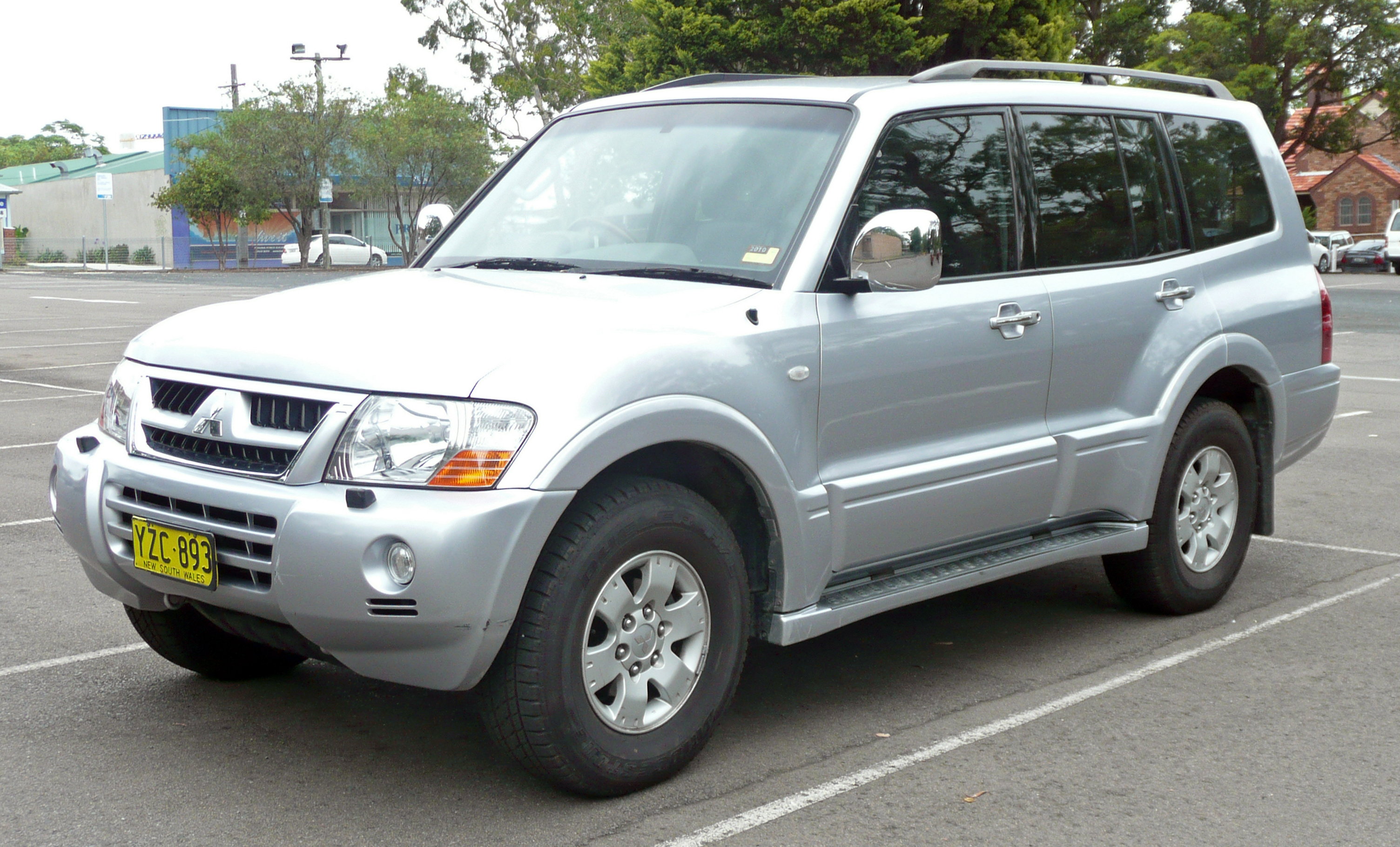 2002–2006 Mitsubishi Pajero (NP) Exceed wagon. Photographed in Sutherland, New South Wales, Australia.